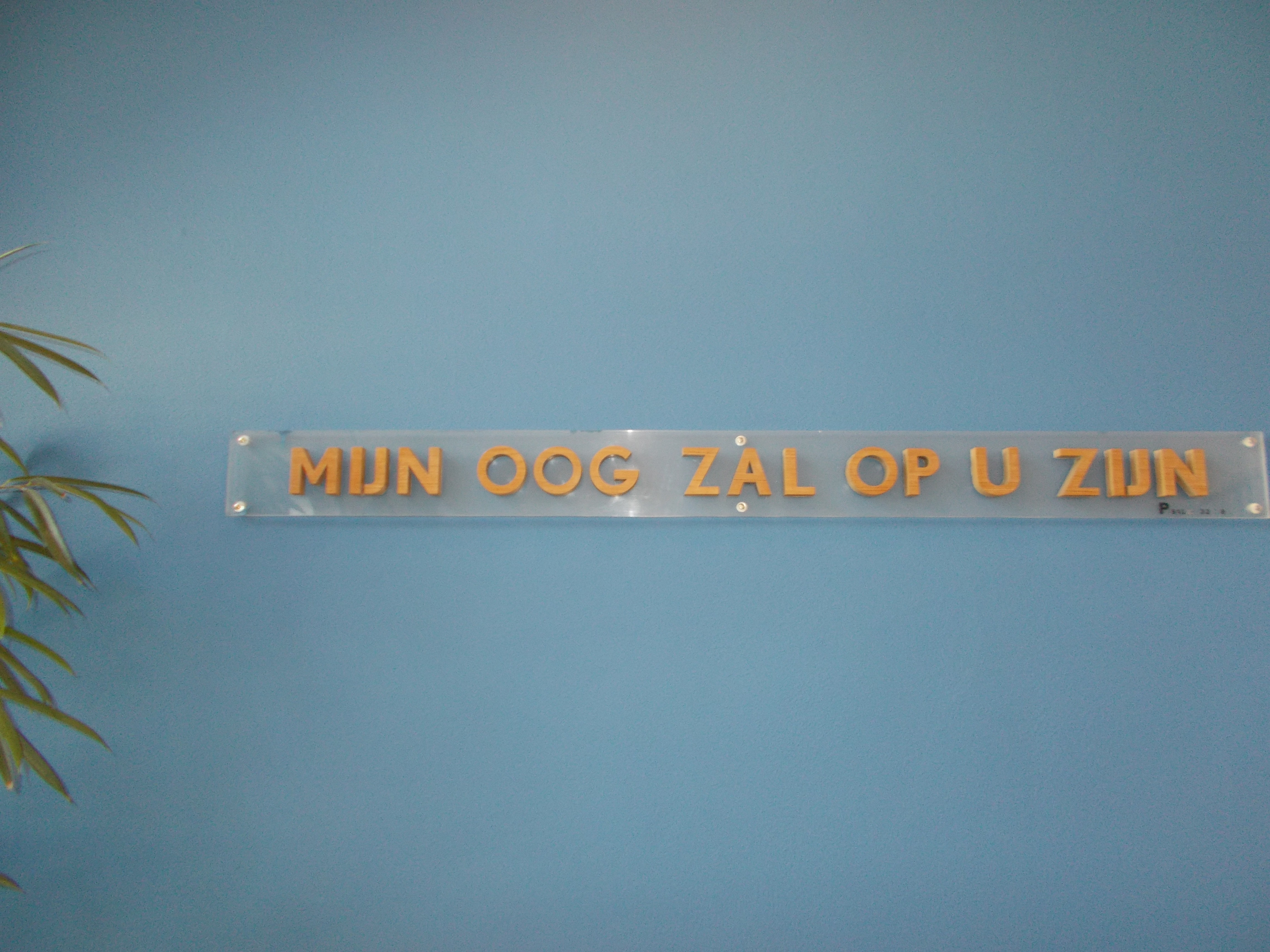 Psalm 32: 8 ("I will counsel you with my loving eye on you") in Dutch, Diaconessenhuis Hospital in Leiden (the Netherlands)